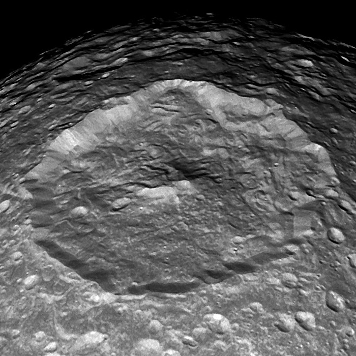 Cropped, rotated view of the crater Herschel on Saturn's moon Mimas, obtained from Cassini image PIA12570.